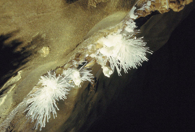 Darren Cilau Cave Llangattock The Urchins.